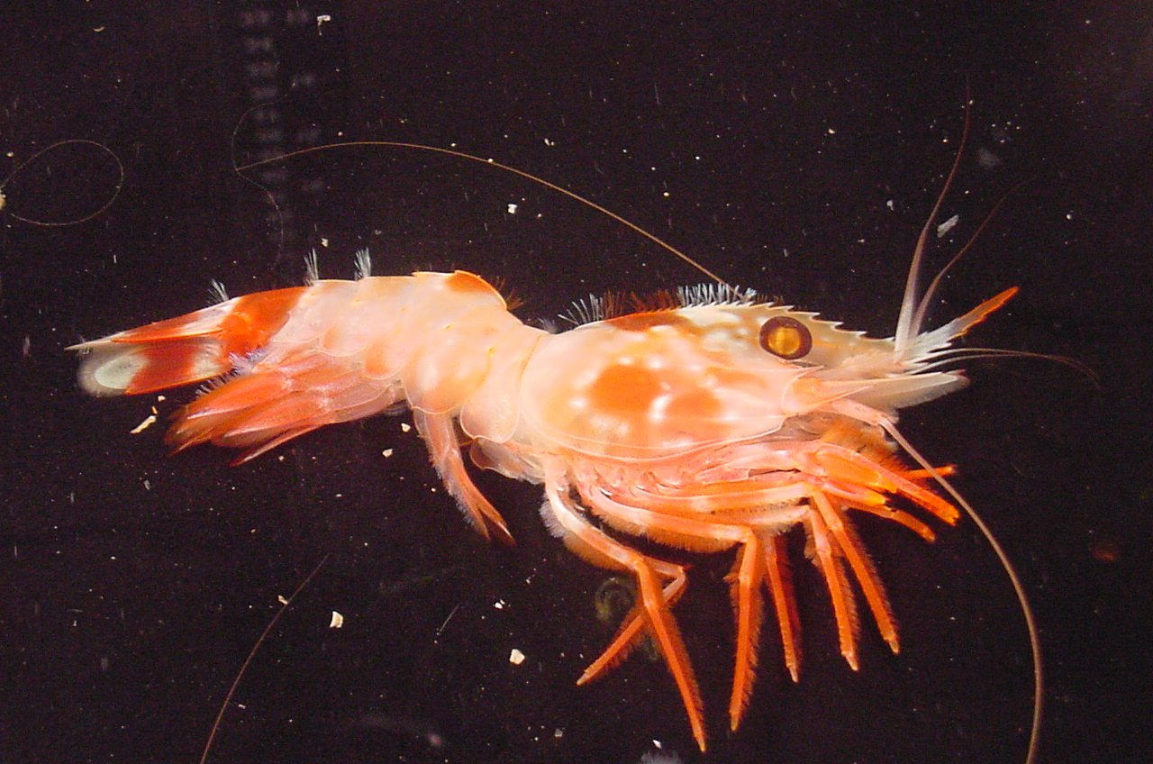 Eugonatonotus crassus shrimp Image ID: expl0279, Voyage To Inner Space - Exploring the Seas With NOAA Collect Location: Southeast of Charleston, South Carolina